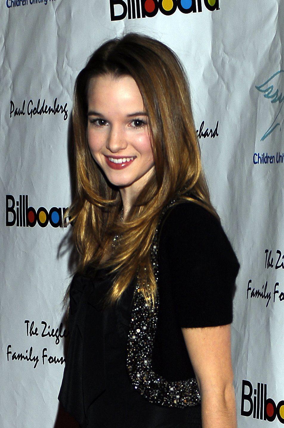 Kay Panabaker at the 79th Annual Academy Awards Children Uniting Nations/Billboard afterparty.